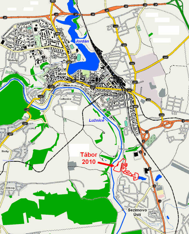 Course of 2010 UCI Cyclo-cross World Championships within town of Tábor, Czech Republic. This map may be incomplete, and may contain errors. Don't rely solely on it for navigation.